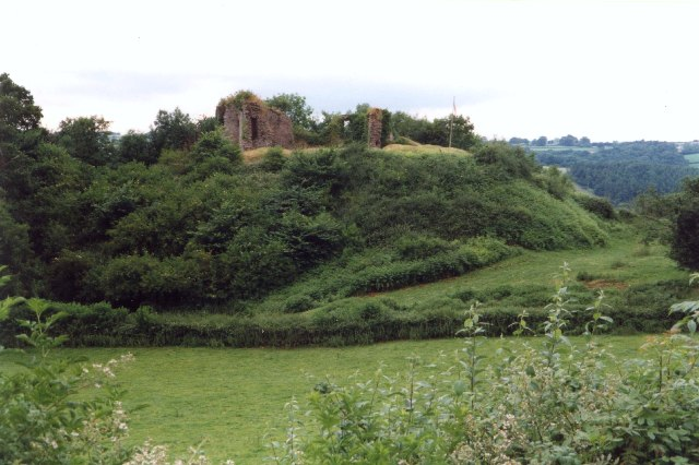 Clifford Castle is a castle in the village of Clifford which lies four miles to the north of Hay-on-Wye in the Wye Valley in Herefordshire (grid reference SO243457).